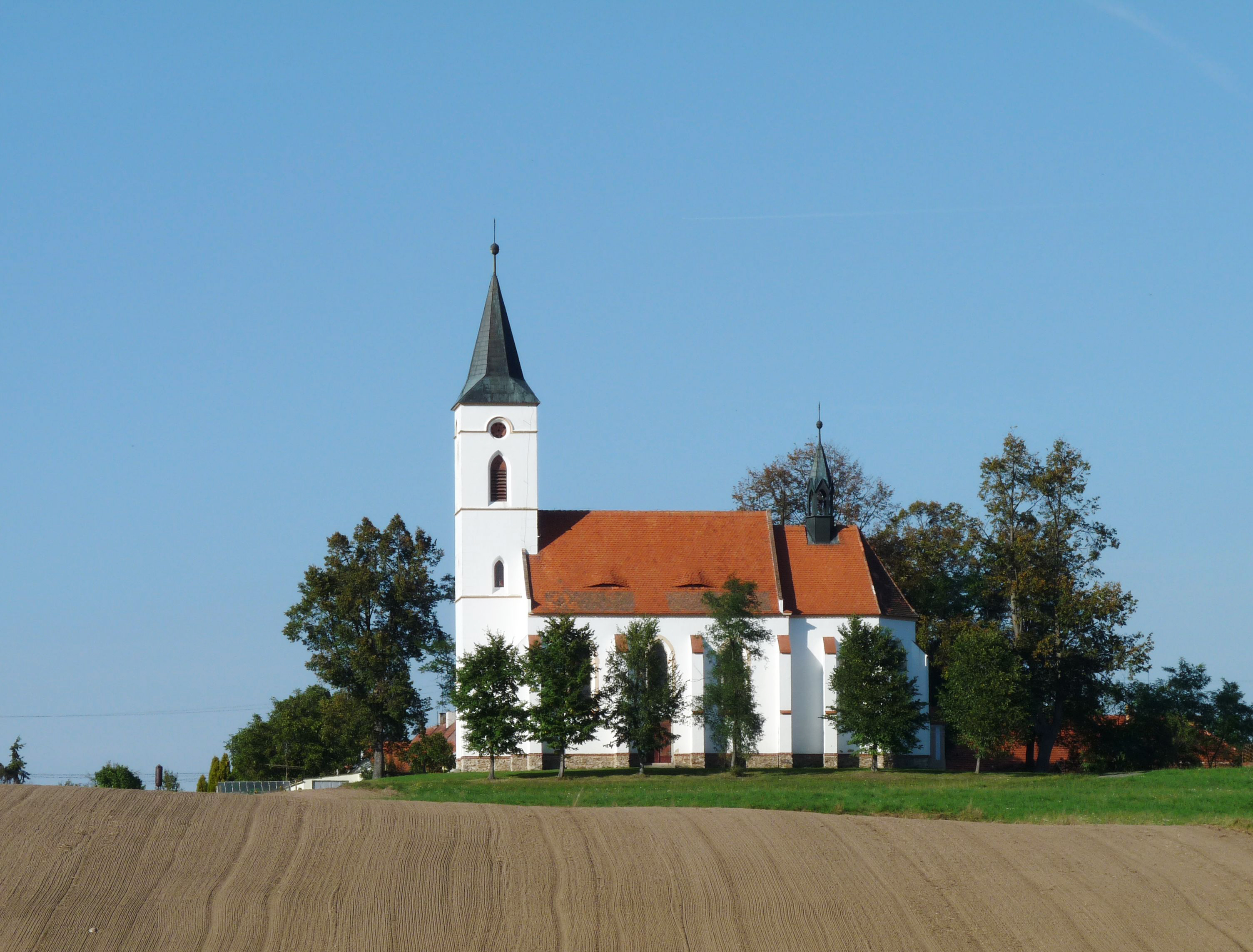 Church of the Virgin Mary in the village of Záblatíčko, part of the village of Dříteň, České Budějovice District, South Bohemian Region, Czech Republic.